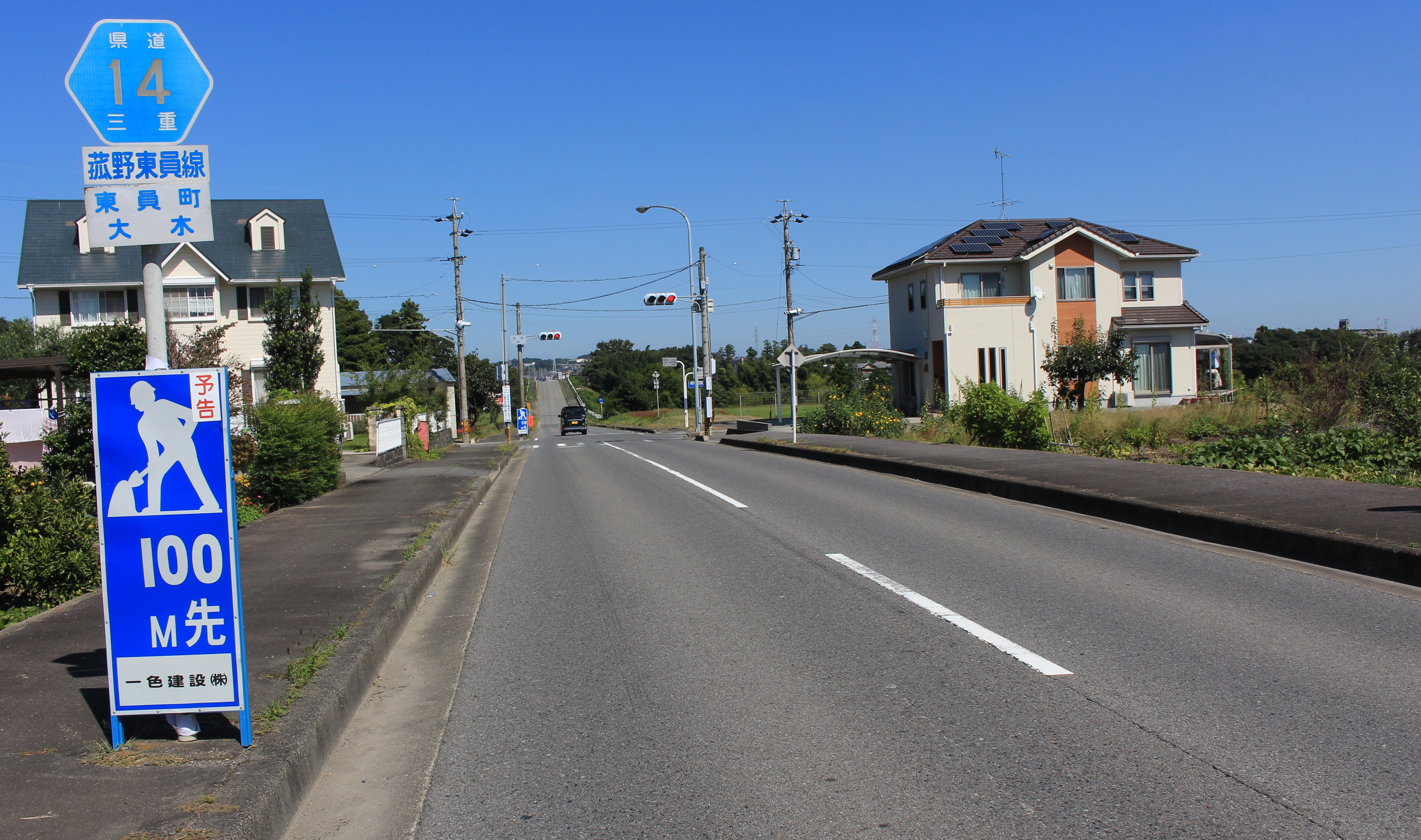 Mie Prefectural Road Route 14 in Toin, Mie prefecture, Japan.